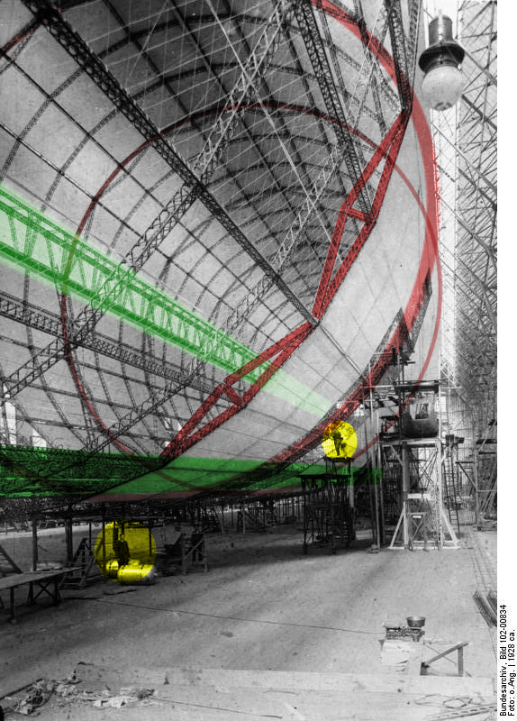 Highlighted construction of LZ 127: green lines indicate the two interior gangways, Blaugas cells would be installed between the lower and and middle gangways with lifting gas cells above; large red circles indicate two of the 13 main rings; two of the diamond-girders of another, closer, main ring are also highlighted red, two unbraced rings lies between each main ring; two people are picked out with yellow circles. Factual corrections and alternative descriptions are encouraged separately from the original description. Additionally errors can be reported at this page to inform the Bundesarchiv. Original historic description: Bau des Luftschiffes "Graf Zeppelin" in Friedrichshafen a/Bodensee.